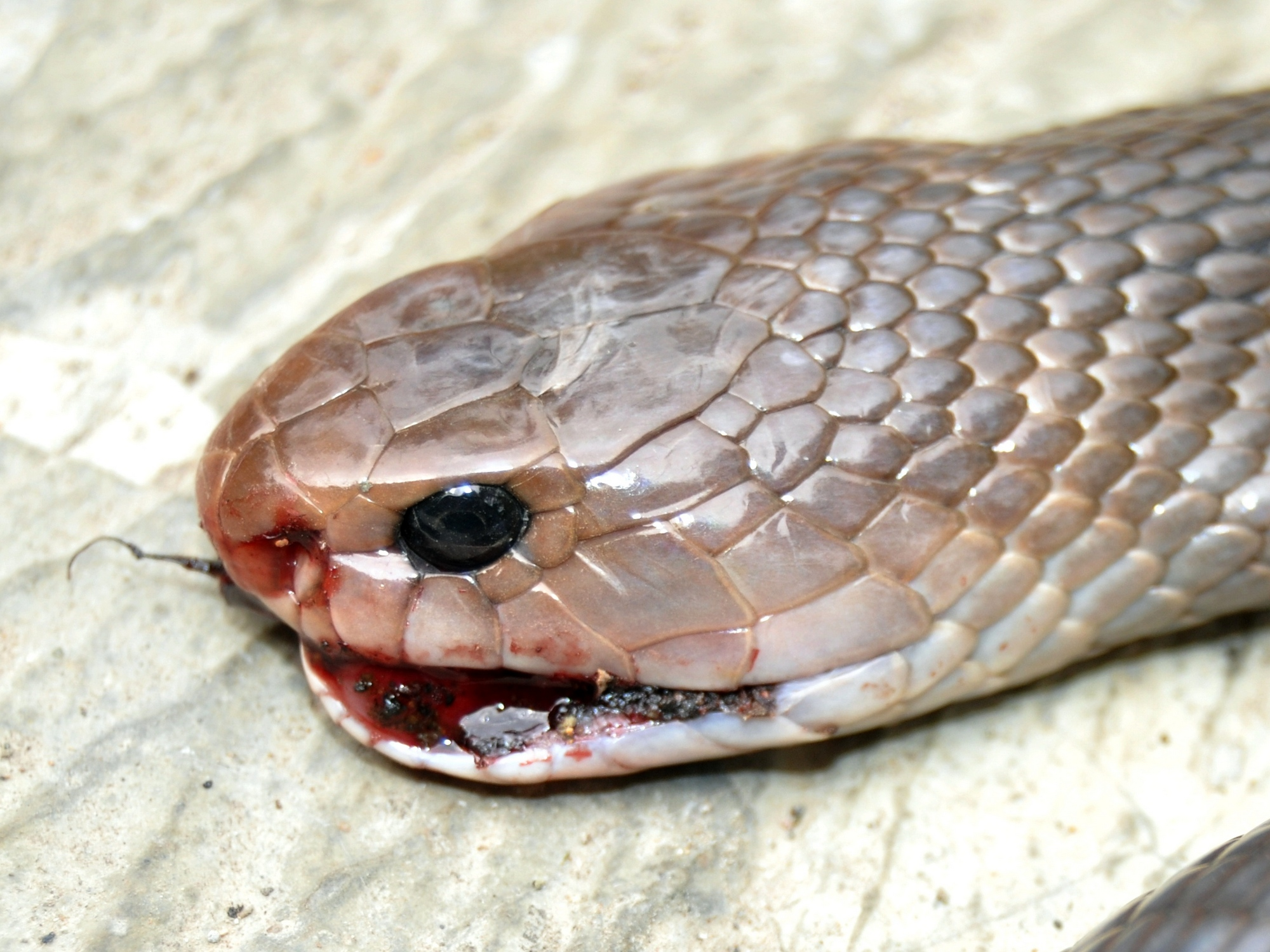 A killed juvenile Javan spitting cobra, Naja sputatrix; head close up. From Banyumas, Central Java, Indonesia.